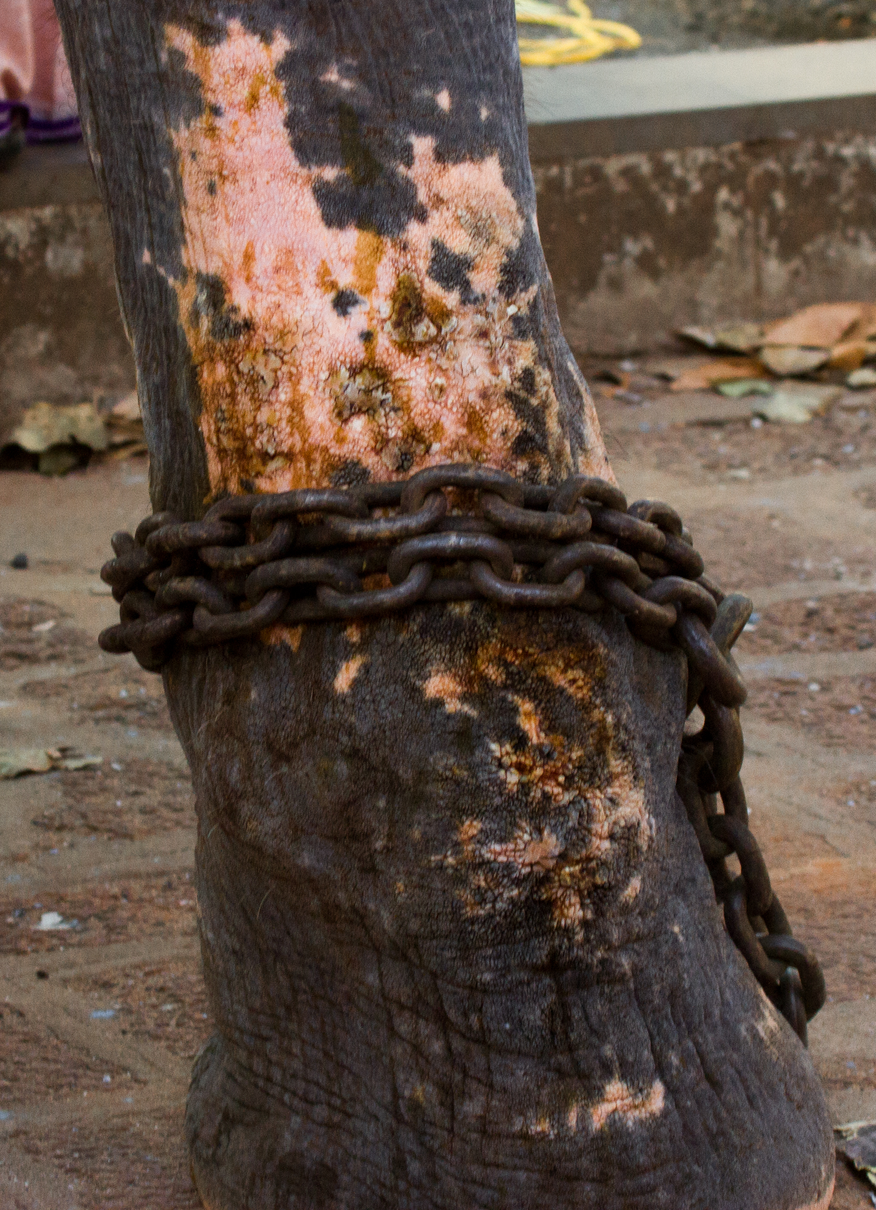 Captive Elephants of Kerala, Cruelty against elephants, Aanapremam, Thrissur Pooram, Festivals of Kerala, Elephants in captivity, Temples of Kerala